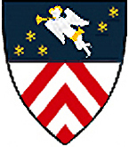 Heraldic figure of the village "Theesen" near Bielefeld (Germany)